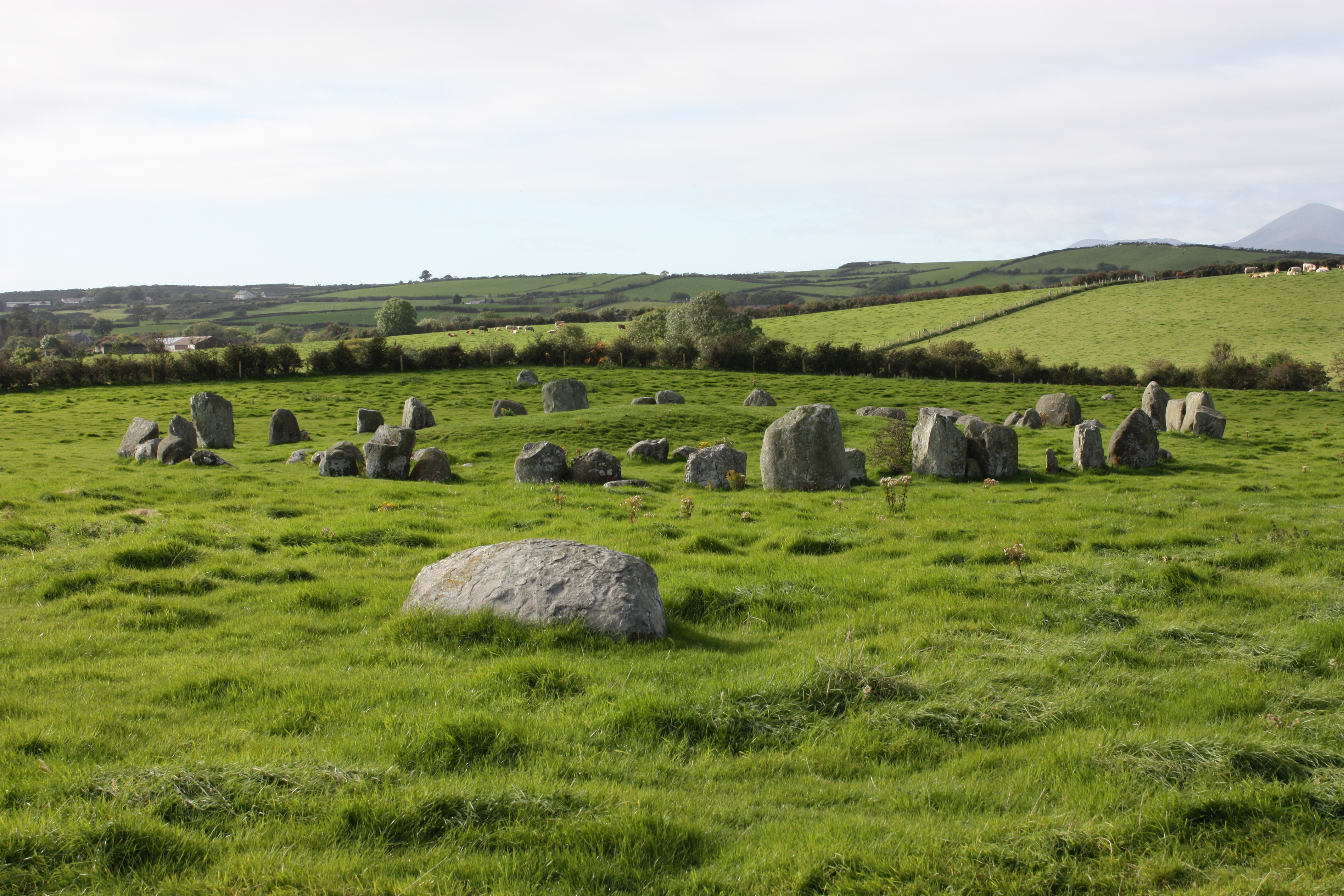 Ballynoe stone circle, Ballynoe (near Downpatrick), County Down, Northern Ireland, September 2009